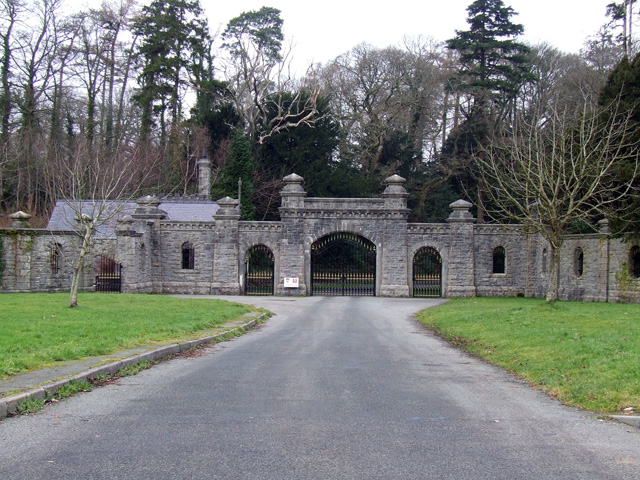 Entrance Gates to Vaynol. The entrance gates to the Vaynol Estate on the outskirts of Bangor